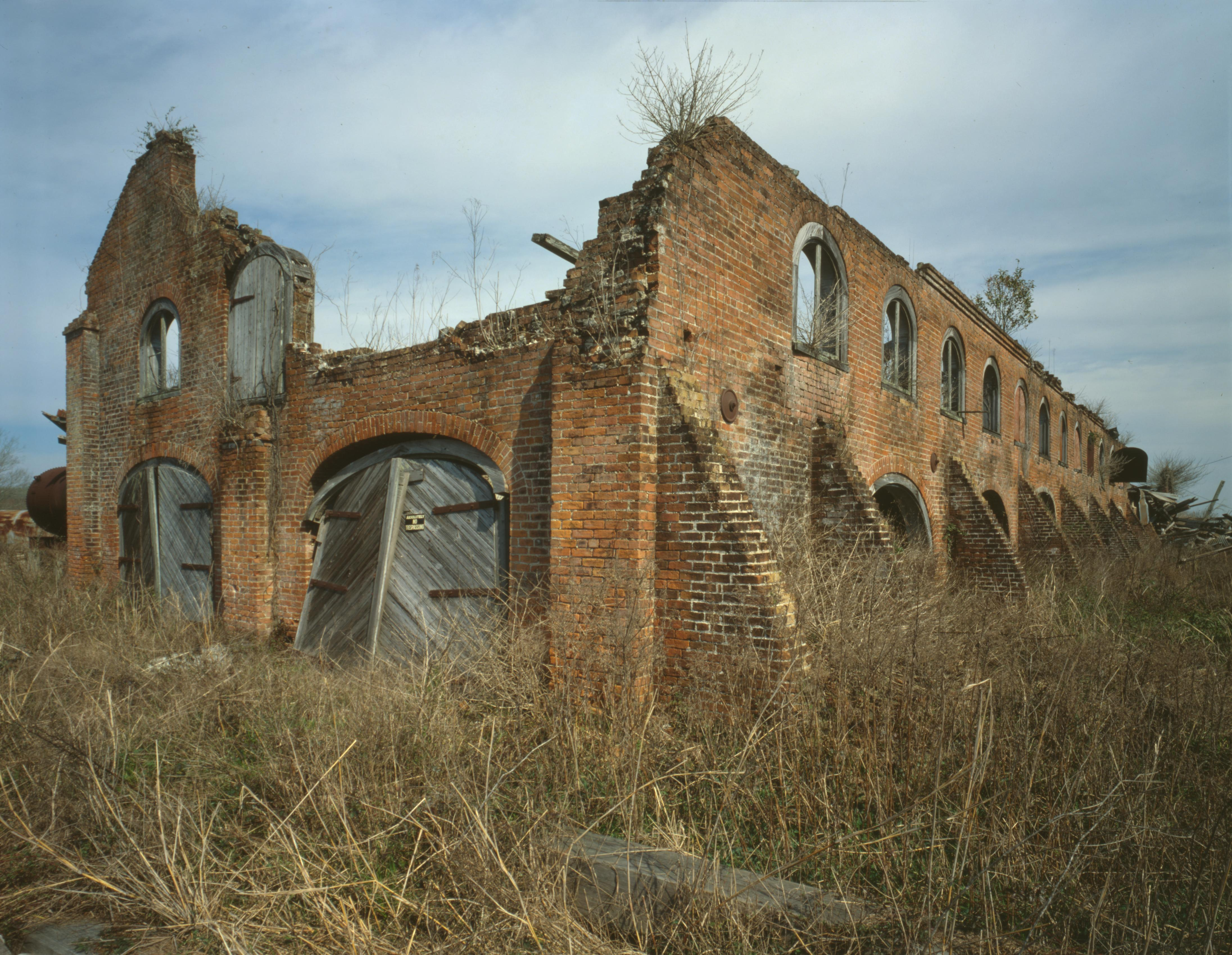 Ruined sugar mill on the grounds of the Laurel Valley Sugar Plantation, located off Louisiana Highway 308 northeast of Thibodaux in Lafourche Parish, Louisiana, United States. Built circa 1840, it was abandoned after being destroyed by Hurricane Betsy in 1965. The remnants of the plantation compose a historic district that is listed on the National Register of Historic Places.